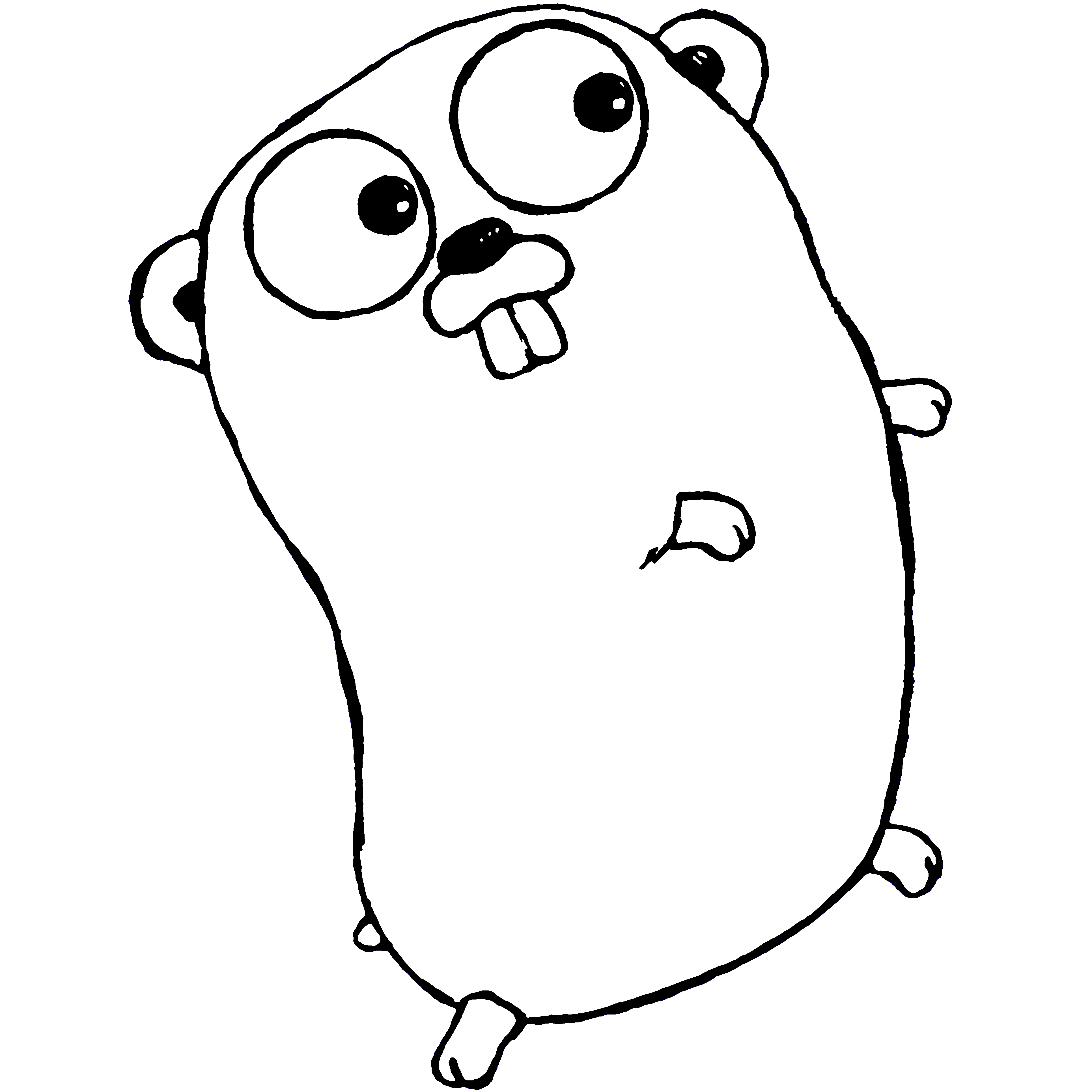 The Go gopher - mascot of the Go programming language (sometimes dubbed Gordon)